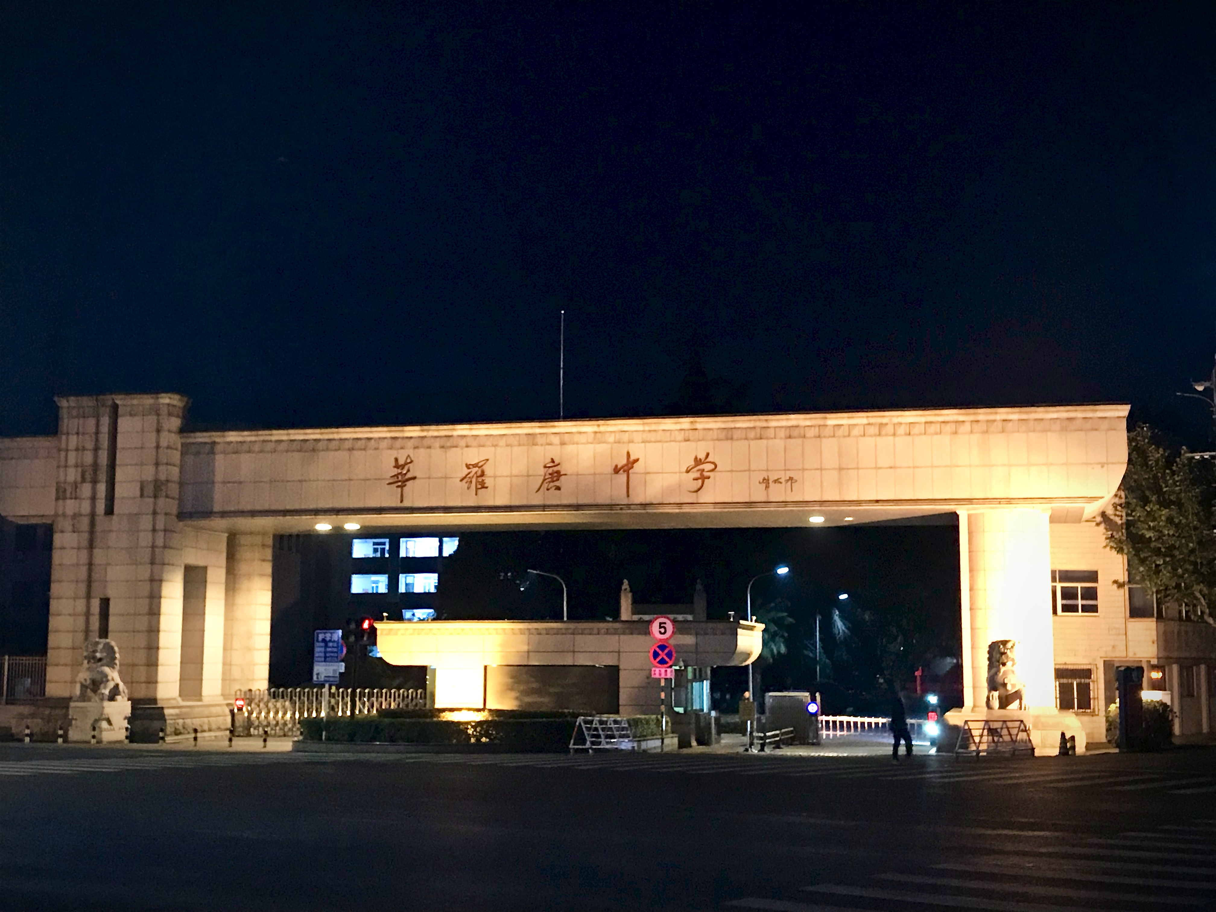 Night scene of Jiangsu Provincial Hua Luogeng High School.